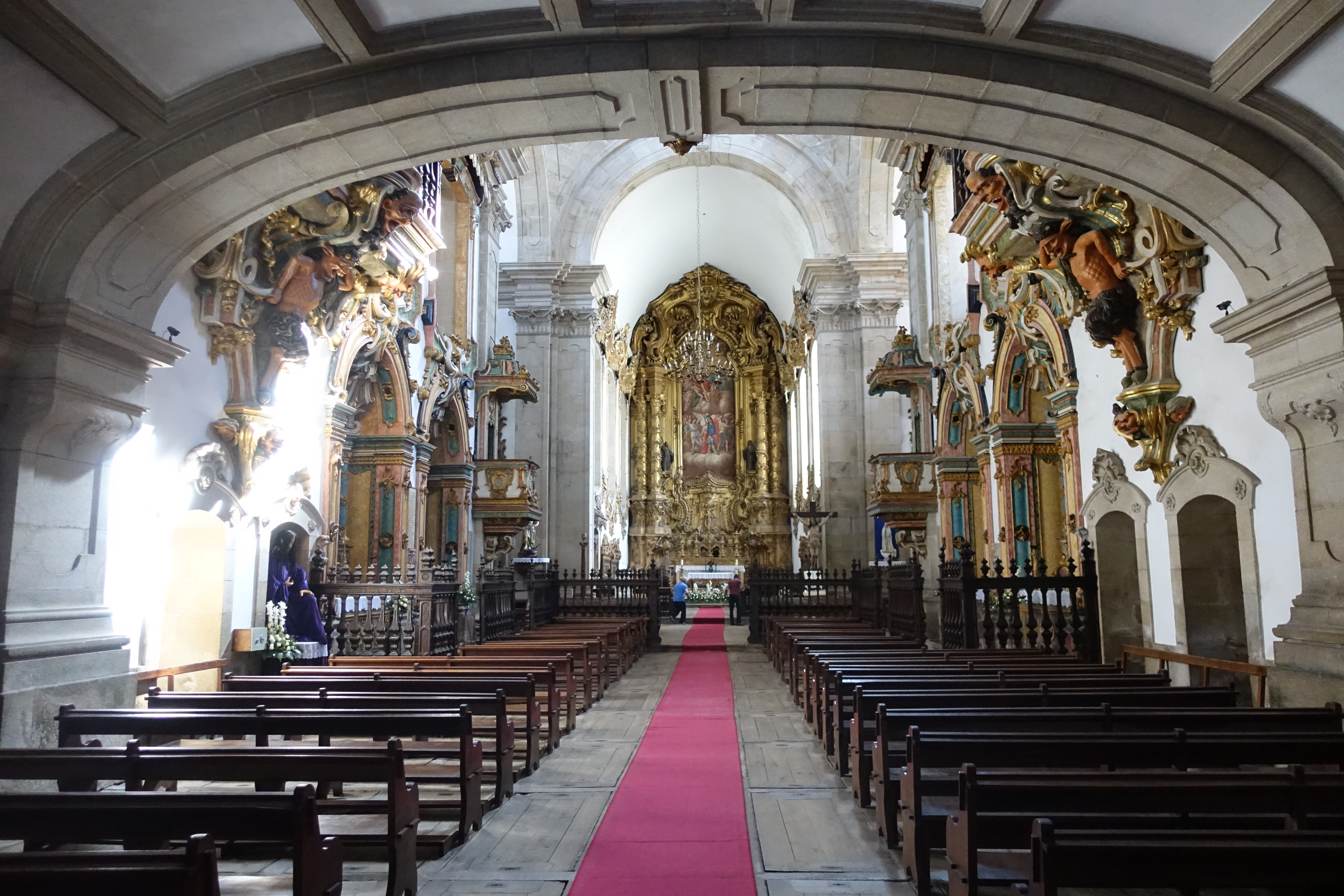 Interior of Mosteiro de São Miguel de Refojos de Basto, Portugal.